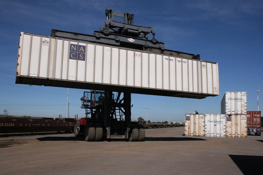 Terminal Ferroviaria